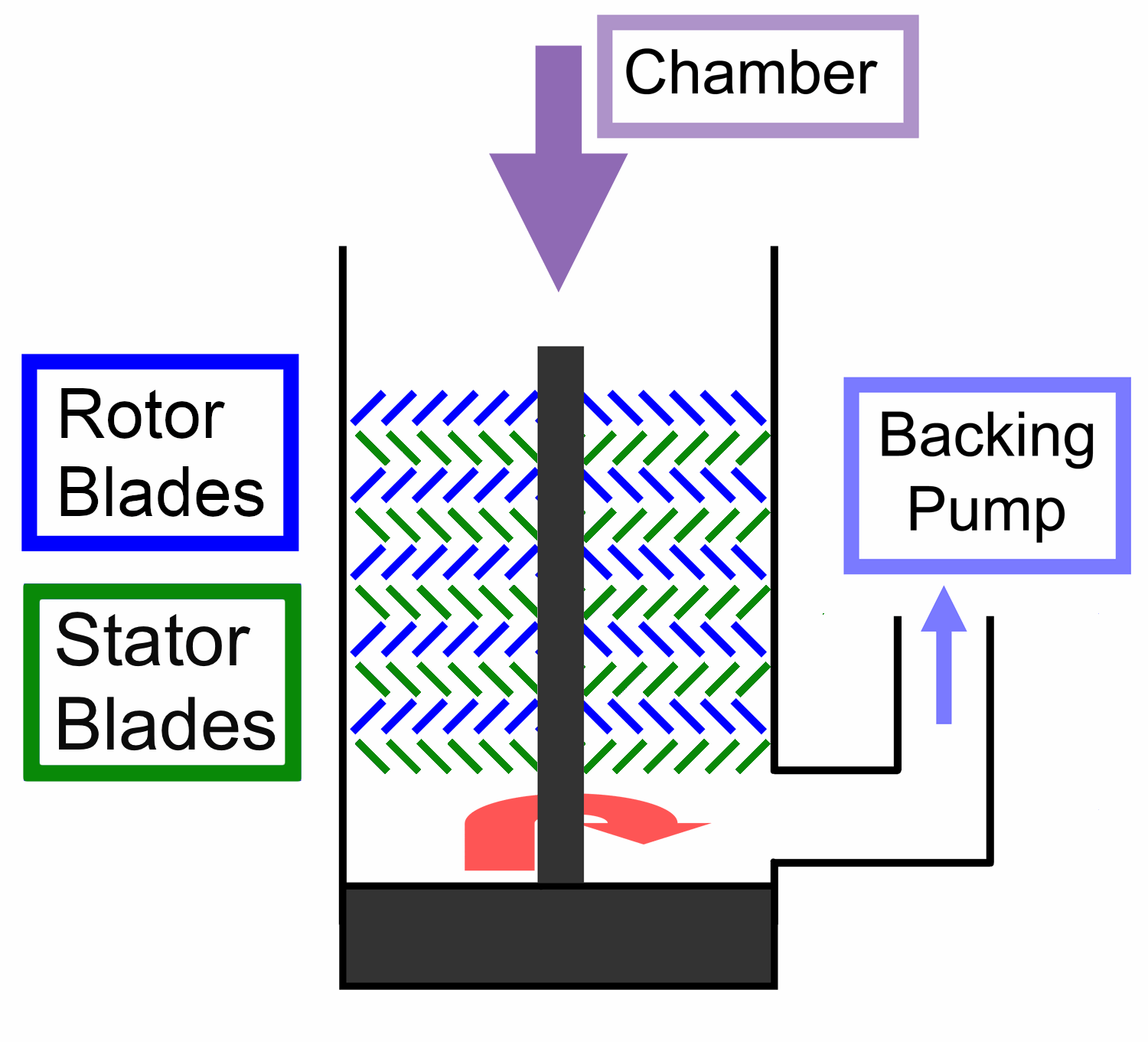 Schematic of a turbomolecular vacuum pump